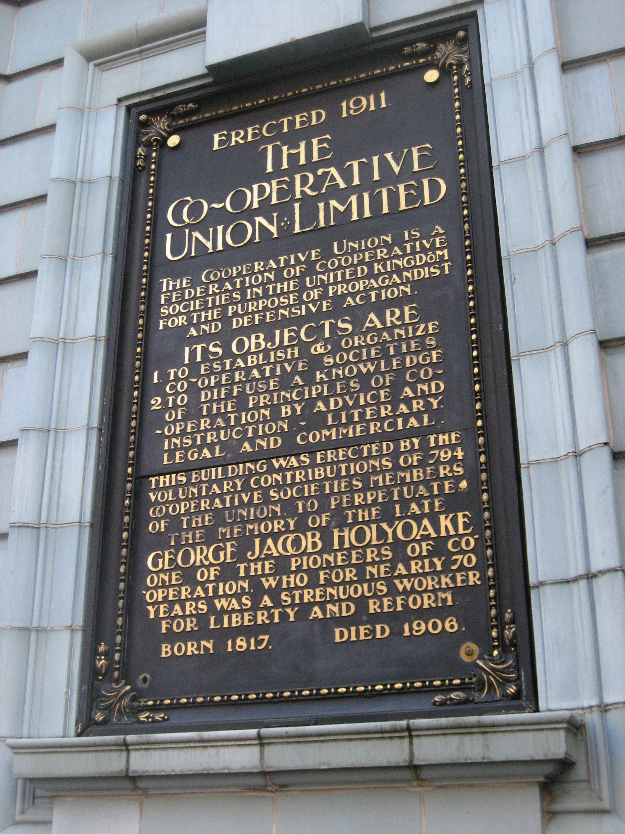 Plaque attached to the wall of the Co-operativesUK head office at Holyoake House, dedicating the building and the organisation to the memory of George Jacob Holyoake.